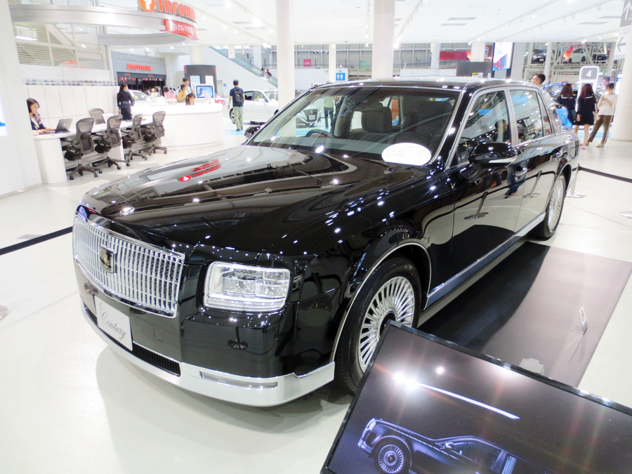 Toyota Century